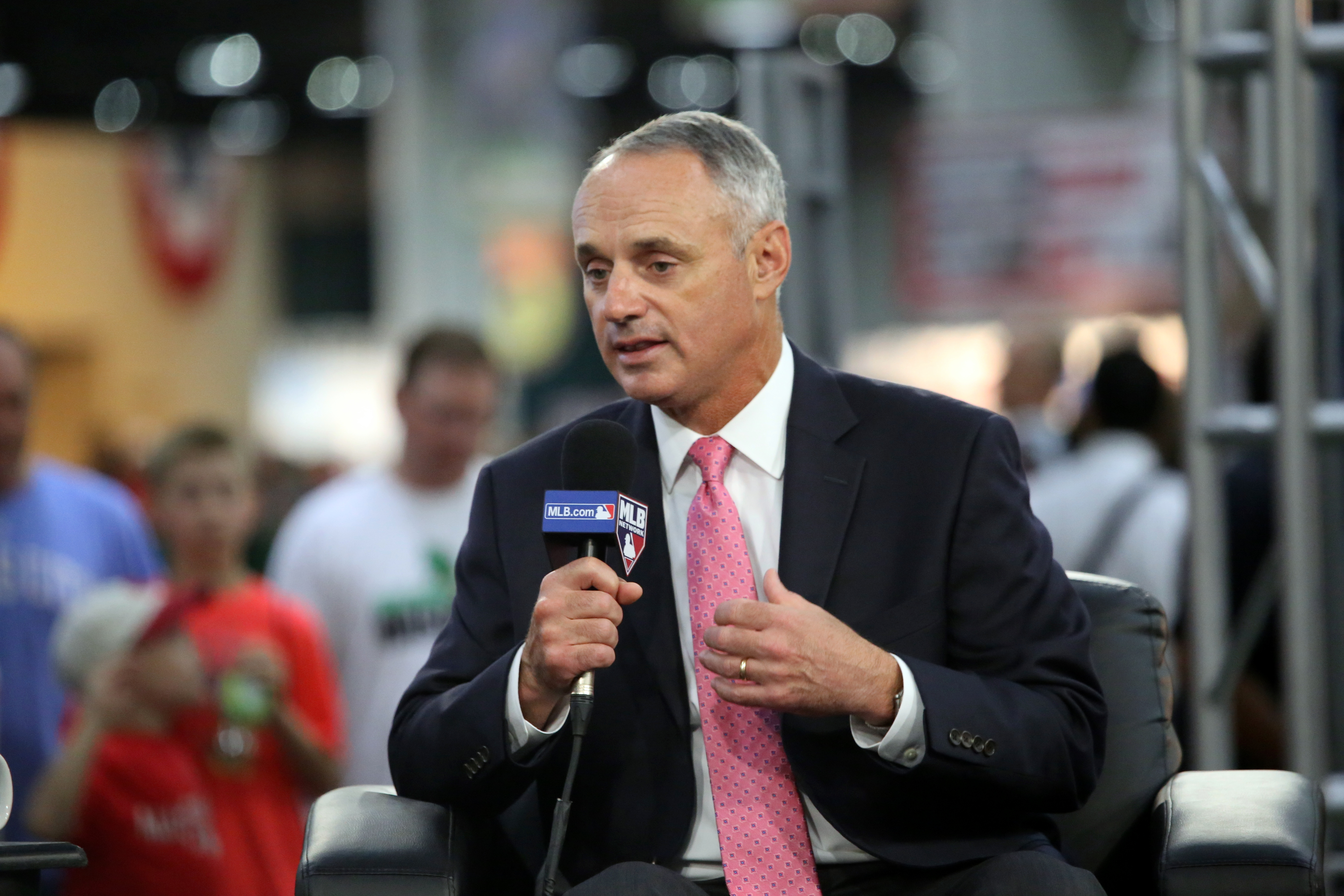 Commissioner Rob Manfred chats with fans during his Town Hall at #FanFest.